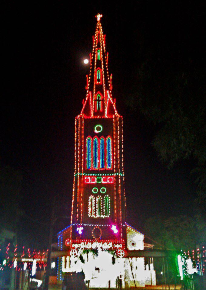 Photo OF ANBINNAGARAM CHRISTU NATHAR CHURCH DURING FESTIVAL